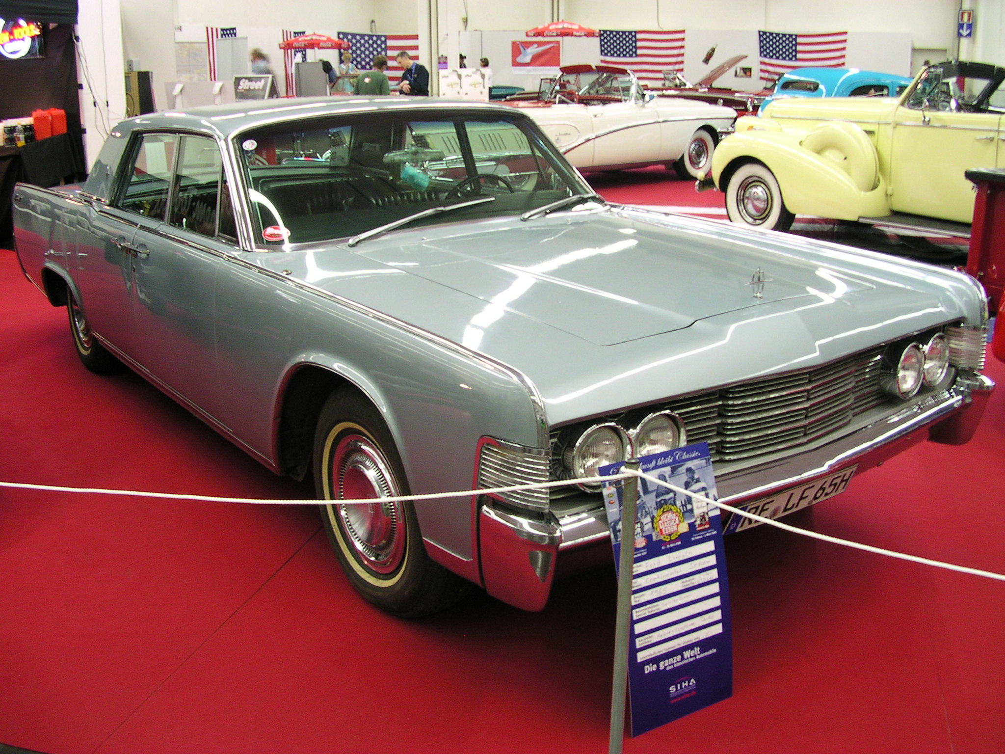 Essen Techno-Classica 2007, Lincoln Continental Mark III long (1965)